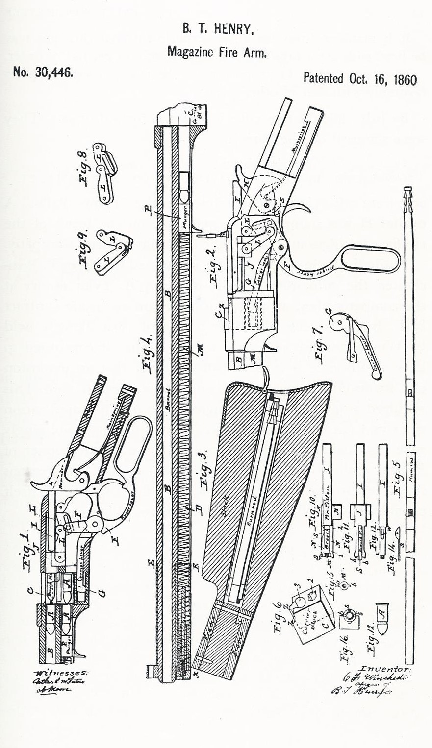 Henry rifle patent 1860